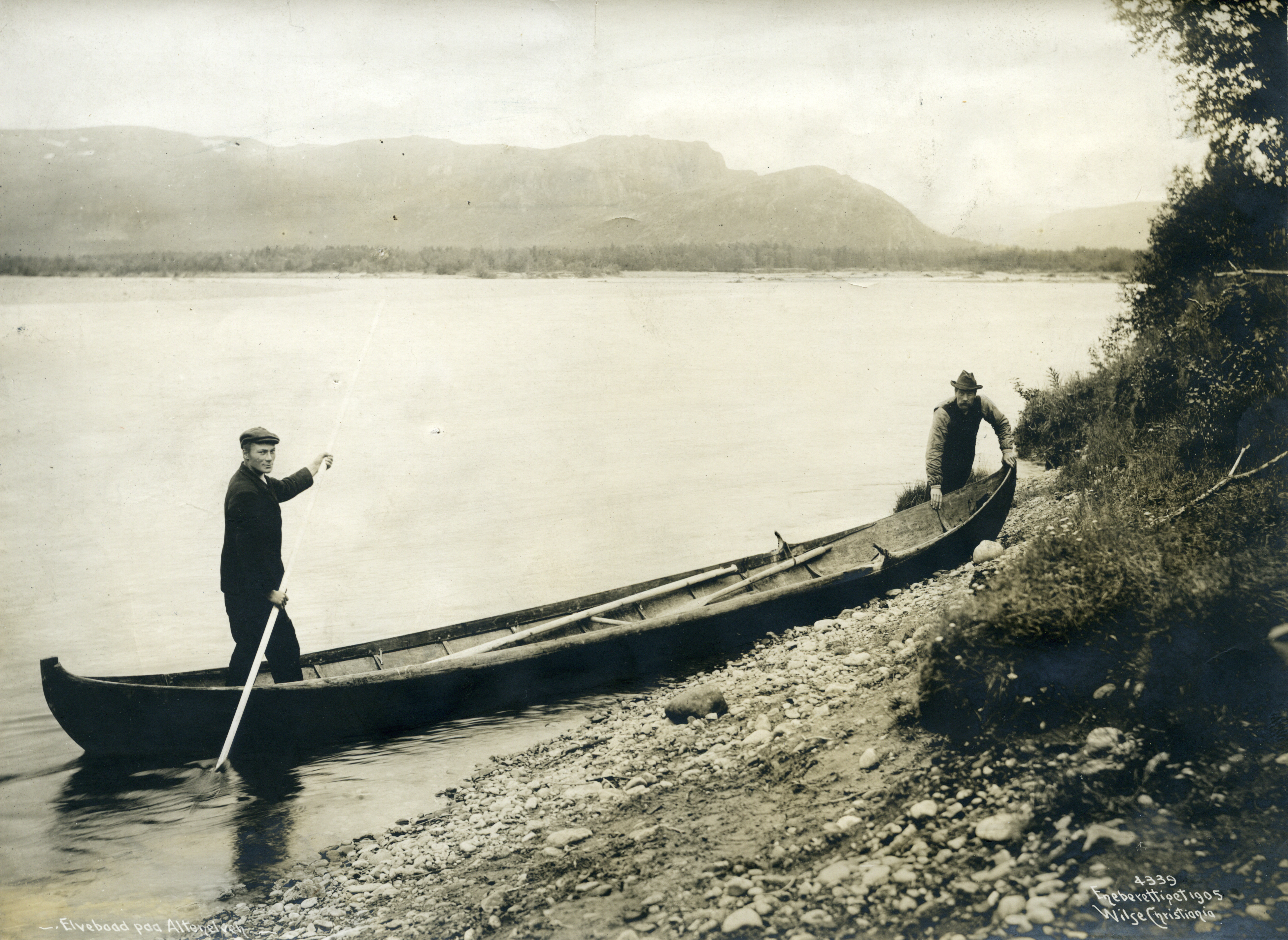 Photo from National Archives of Norway's Flickr-Album "Originaler til postkort/Photo used for postcards", photos for postcards, magazines , and leaflets published by Narvesen kiosk company/Narvesens kioskkompagni (archive reference: Narvesen - RA/PA-1522/U/Ua Originaler til postkort). All images are marked with "No known copyright restrictions".